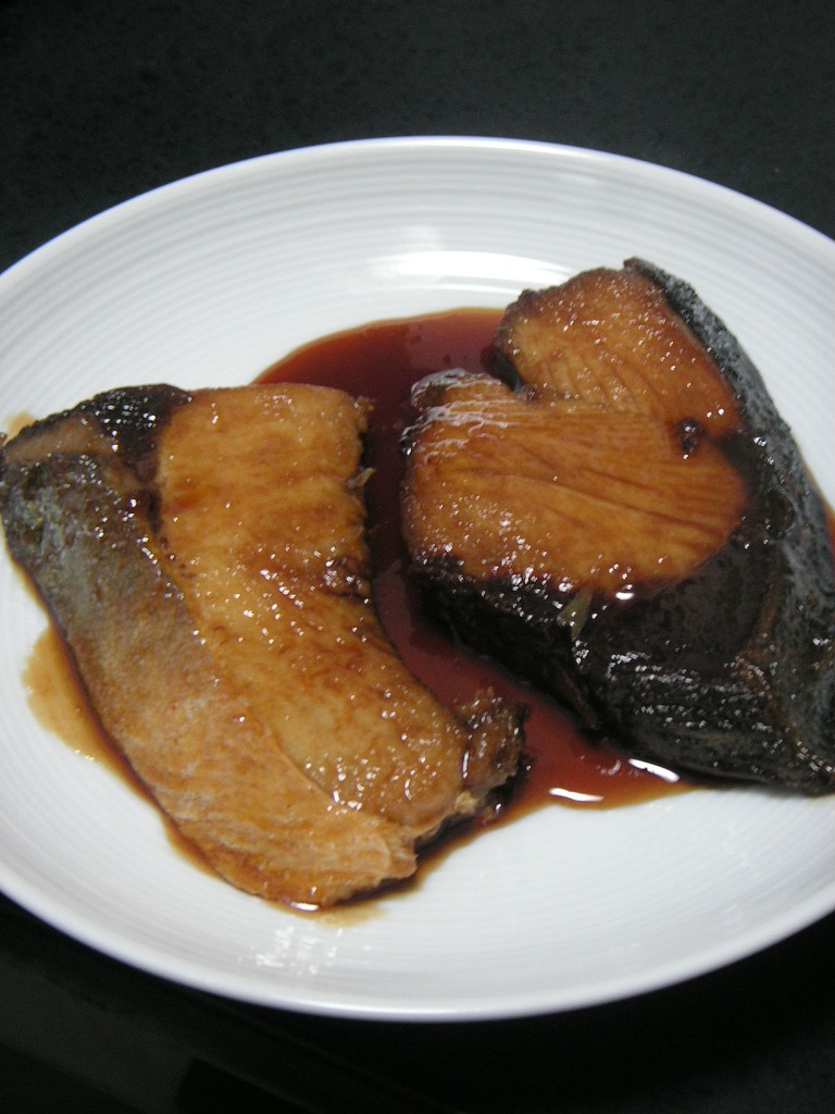 yellowtail broiled with soy sauce